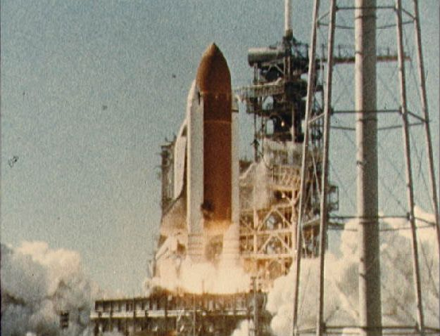 First evidence of black smoke near the right Shuttle Rocket Booster (SRB) near field joint, during Liftoff of the Shuttle Challenger STS 51-L. Time as OF0.445 Kennedy Space Center alternative photo number is 108-KSC-386C-660/2 (10096); Smoke is at its darkest at Time as OF1.606. KSC alternative photo number is 108-KSC-386C-660/75 (10097); Black smoke extends halfway across the right SRBat Times as OF2.147. KSC alternative photo number is 108-KSC-386C-660/160 (10098).